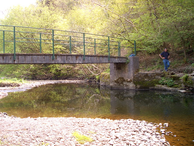 Squires Bridge over the Sirhowy. A quiet footpath bridge over the Sirhowy river. Now a clean and beautiful river the mines that formerly poisoned it long gone.